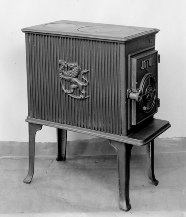 Jøtul F 602 made at Jøtul and Kværner woodstove foundry AS. It was made stoves in cast iron at Bryn in Oslo from 1853. In 1970, production was gradually moved to Kråkerøy at Fredrikstad. The factory in Oslo was closed down in 1989. Production was documented on the occasion of 90th annual anniversary in 1943. Exhibition text " - Through Lens" This woodstove is one of Jøtul's timeless classics. It is a longstanding bestseller which was designed in the late 1930s by the architects Blakstad and Munthe-Kaas and decorated by sculptor Ørnulf Bast.